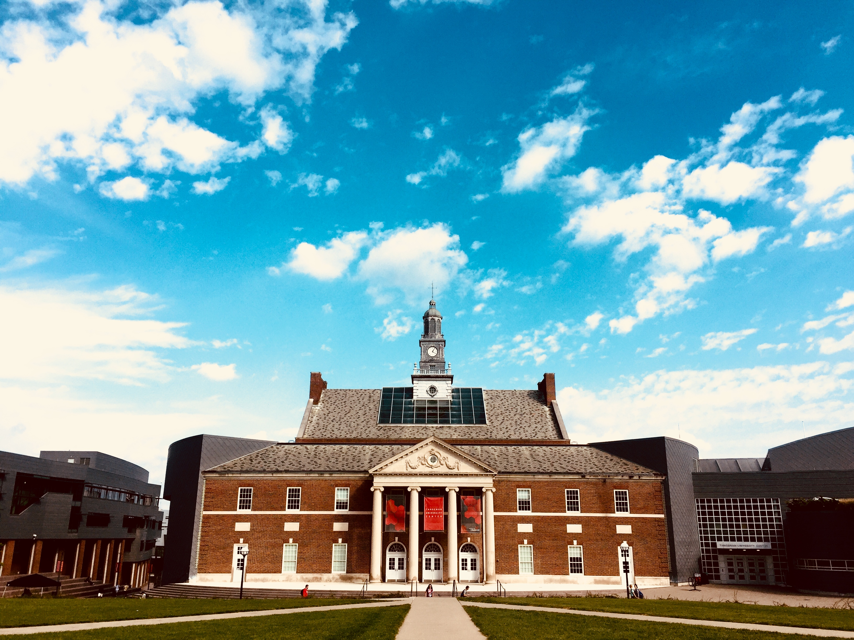 This is the Tangeman University Center, designed by Gwathmey Siegel & Associates Architects. It houses several food courts and other student amenities.